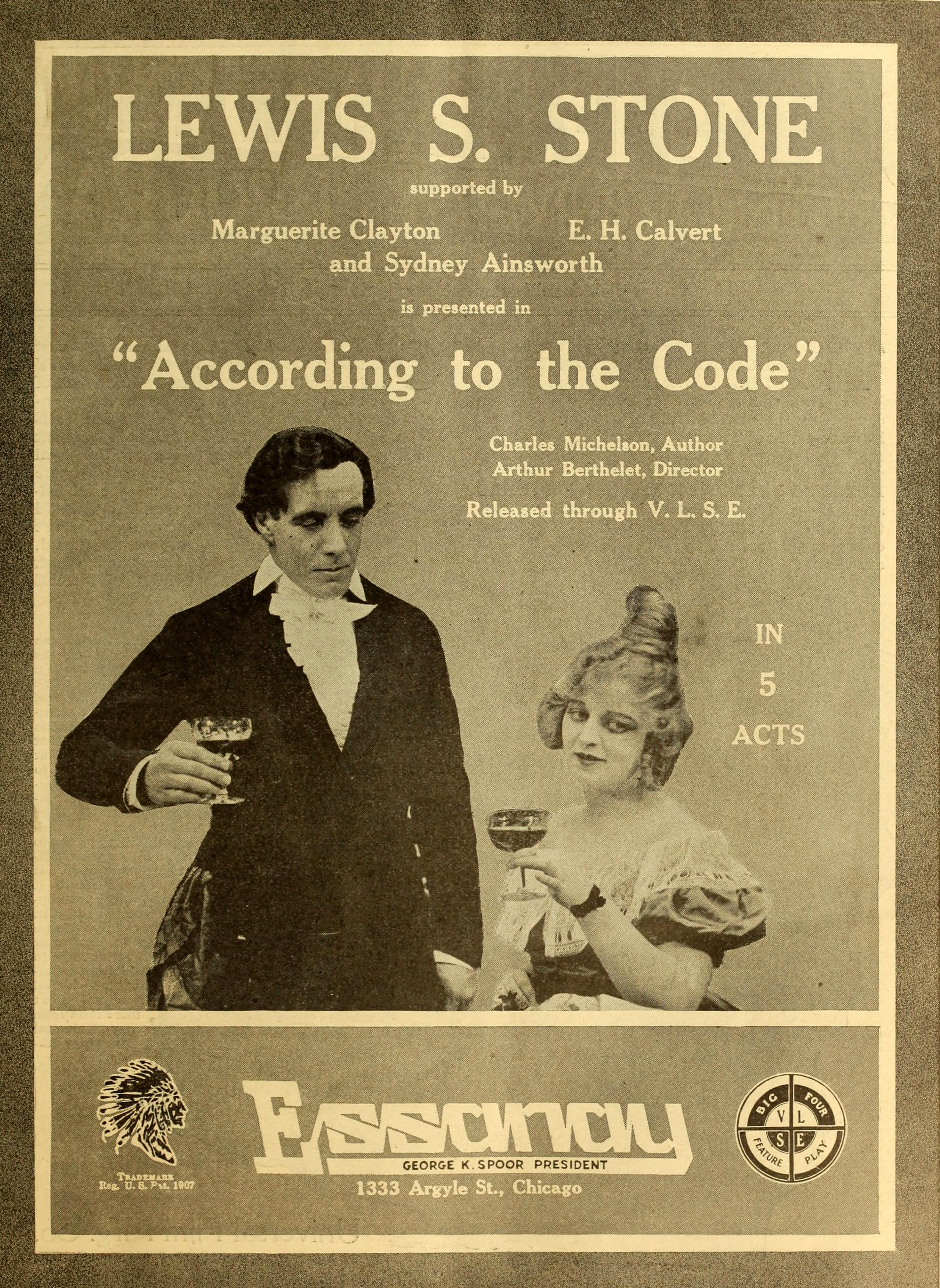 Advertisement in The Moving Picture World